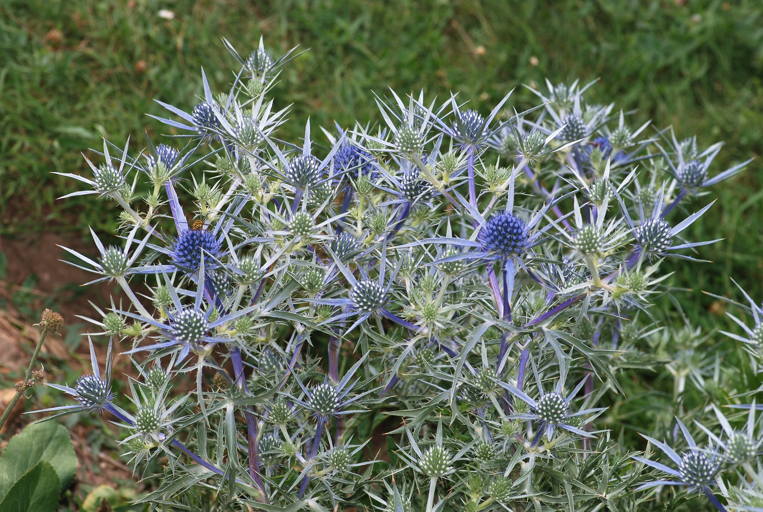 Amethyst Sea Holly (Eryngium amethystinum). Jardin des plantes, Paris.